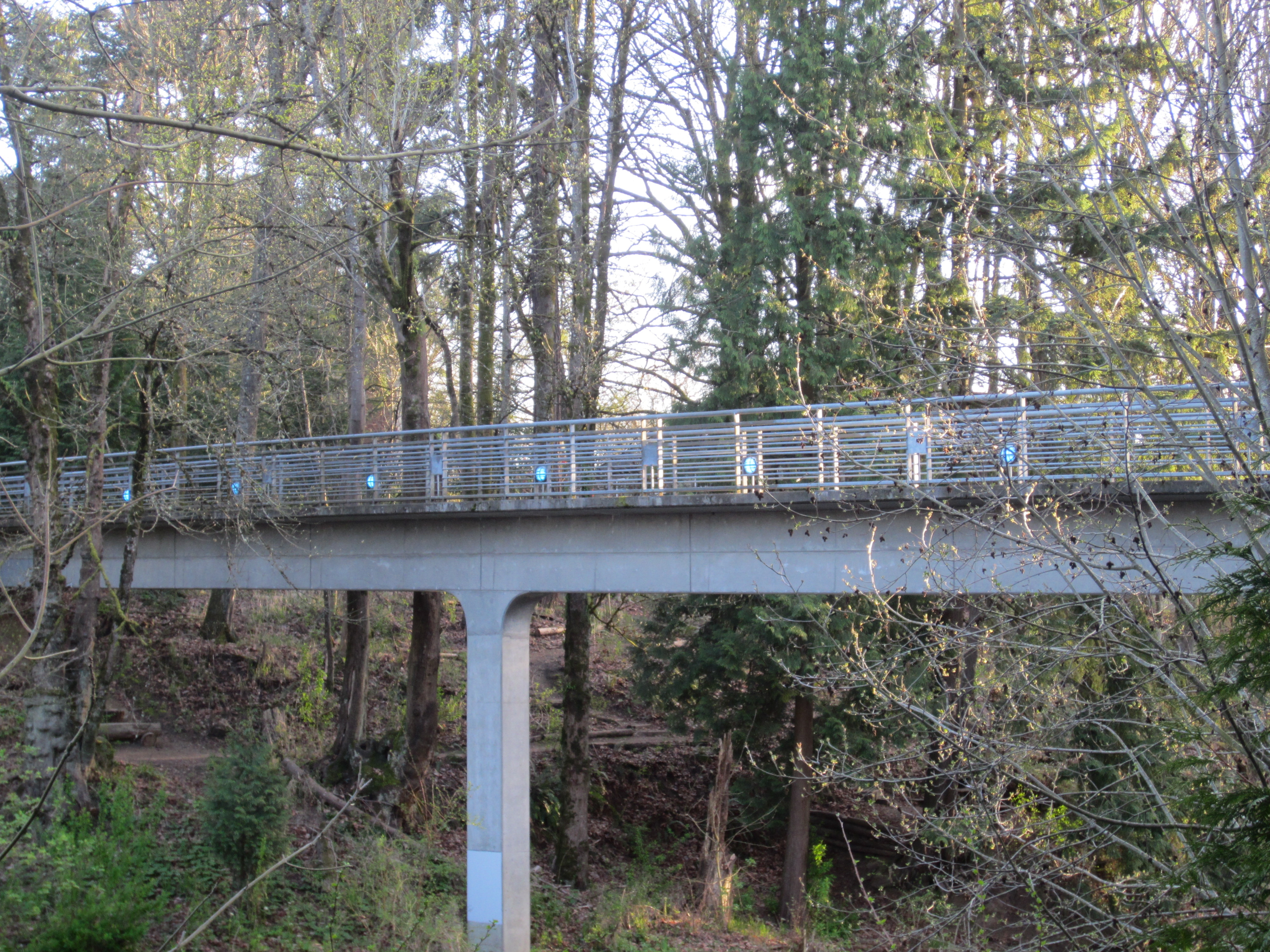 Blue Bridge, Reed College, Portland, Oregon (2013)